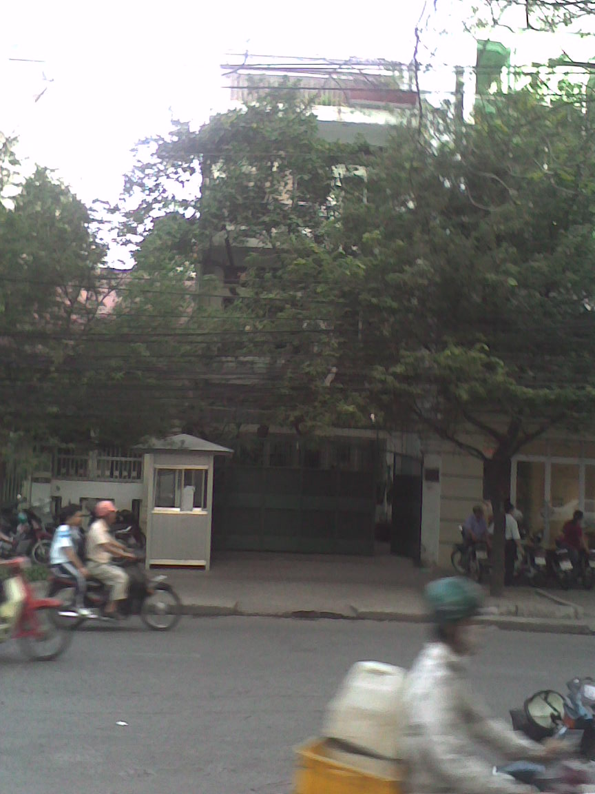 Panama has a presence in Vietnam...